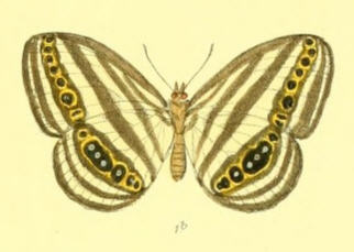 Ragadia crisilda